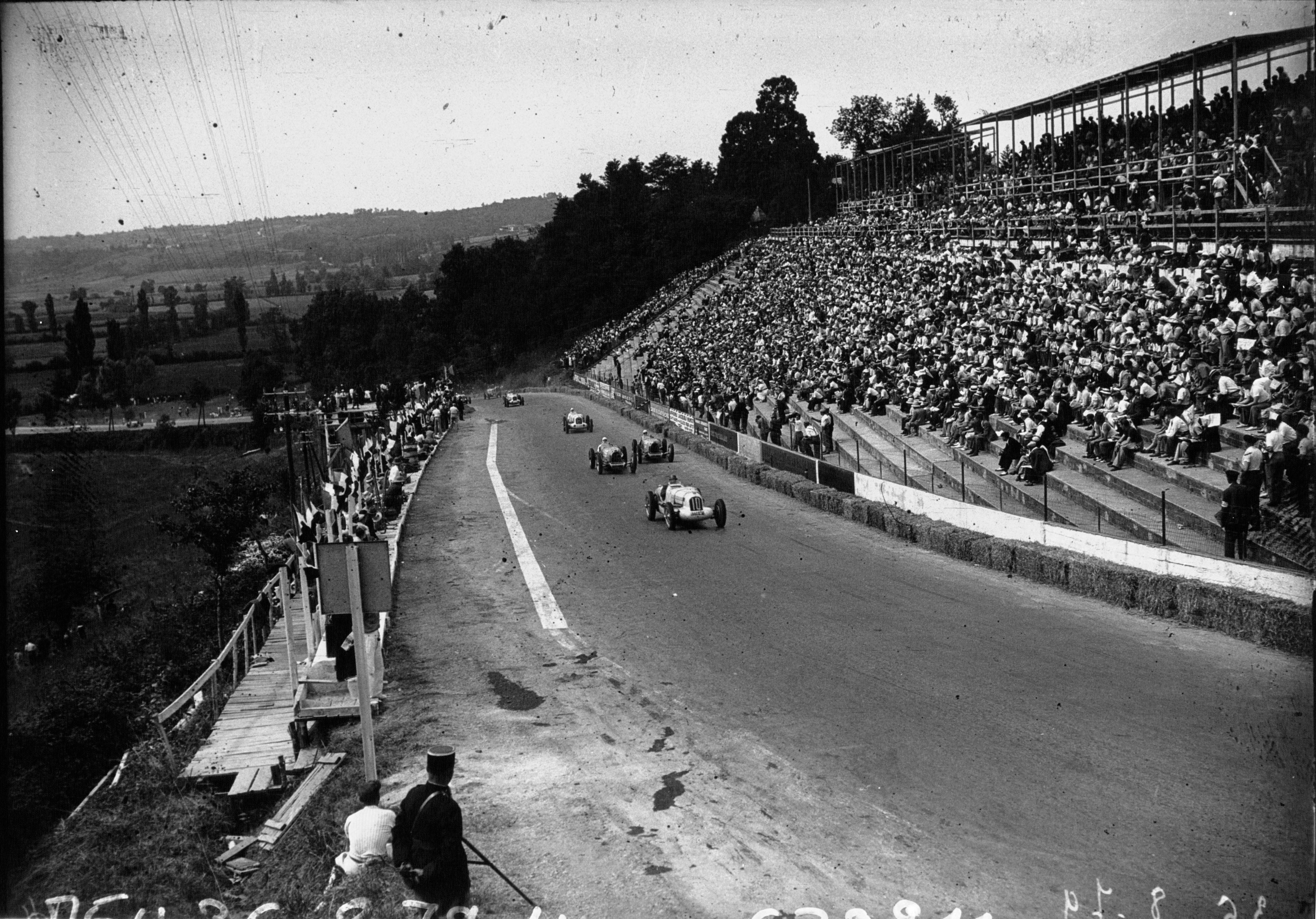 1936 Grand Prix du Comminges race